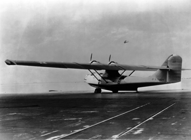 The XPBY-1 prototype of the Consolidated PBY Catalina (BuNo 9459). It was originally designated XP3Y-1 and made its first flight on 15 March 1935.